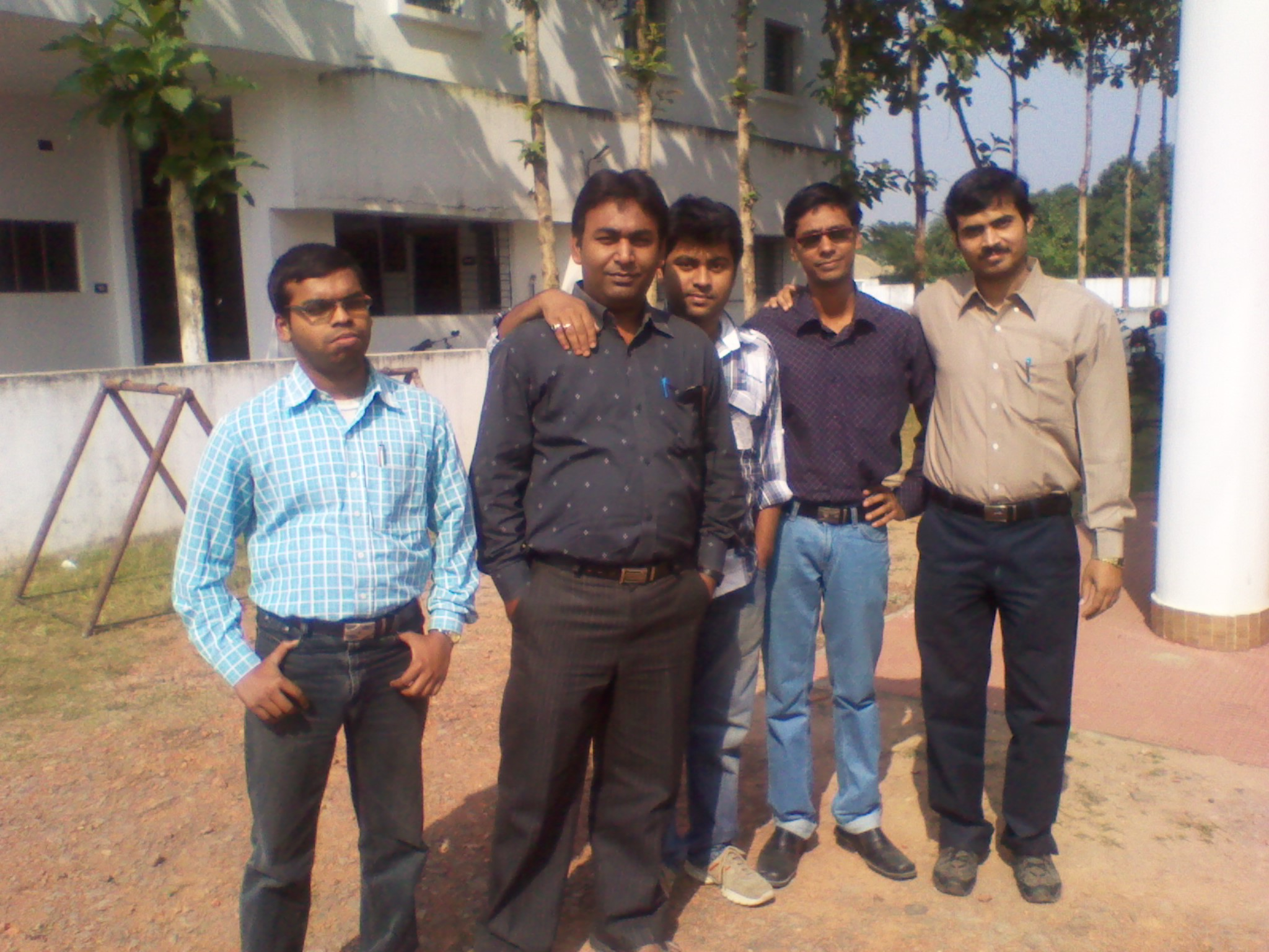 Santipur B.Ed College Students.